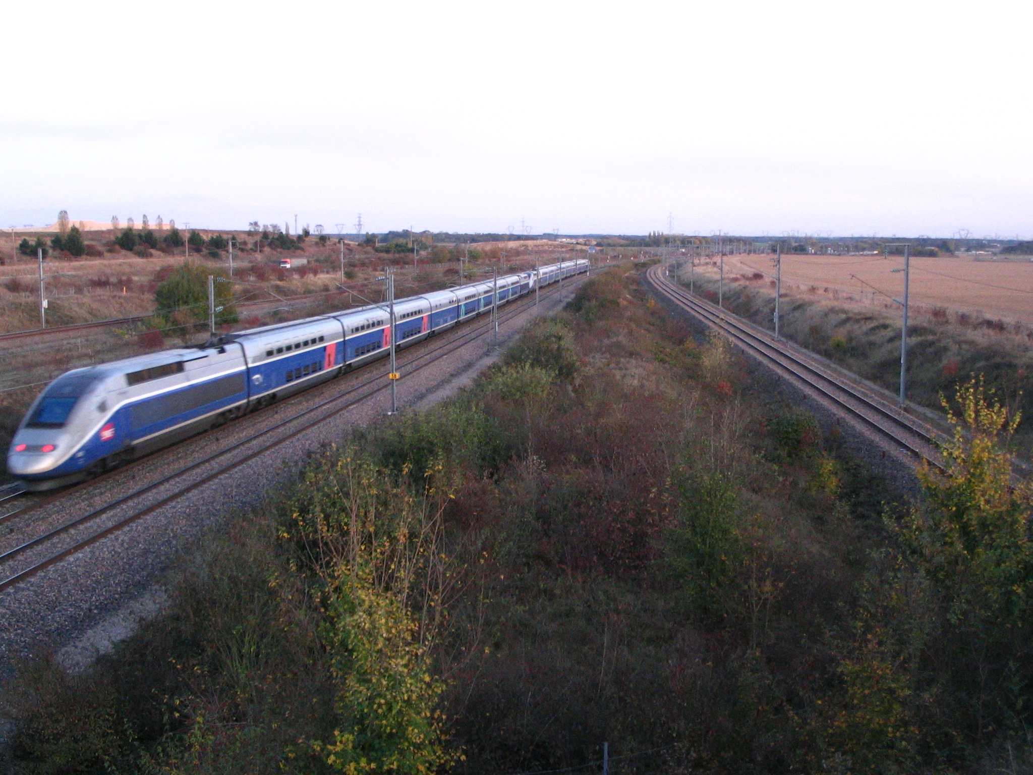 A TGV at the railway junction known as Crisenoy's, in Seine-et-Marne, France, on the LGV Sud-Est.